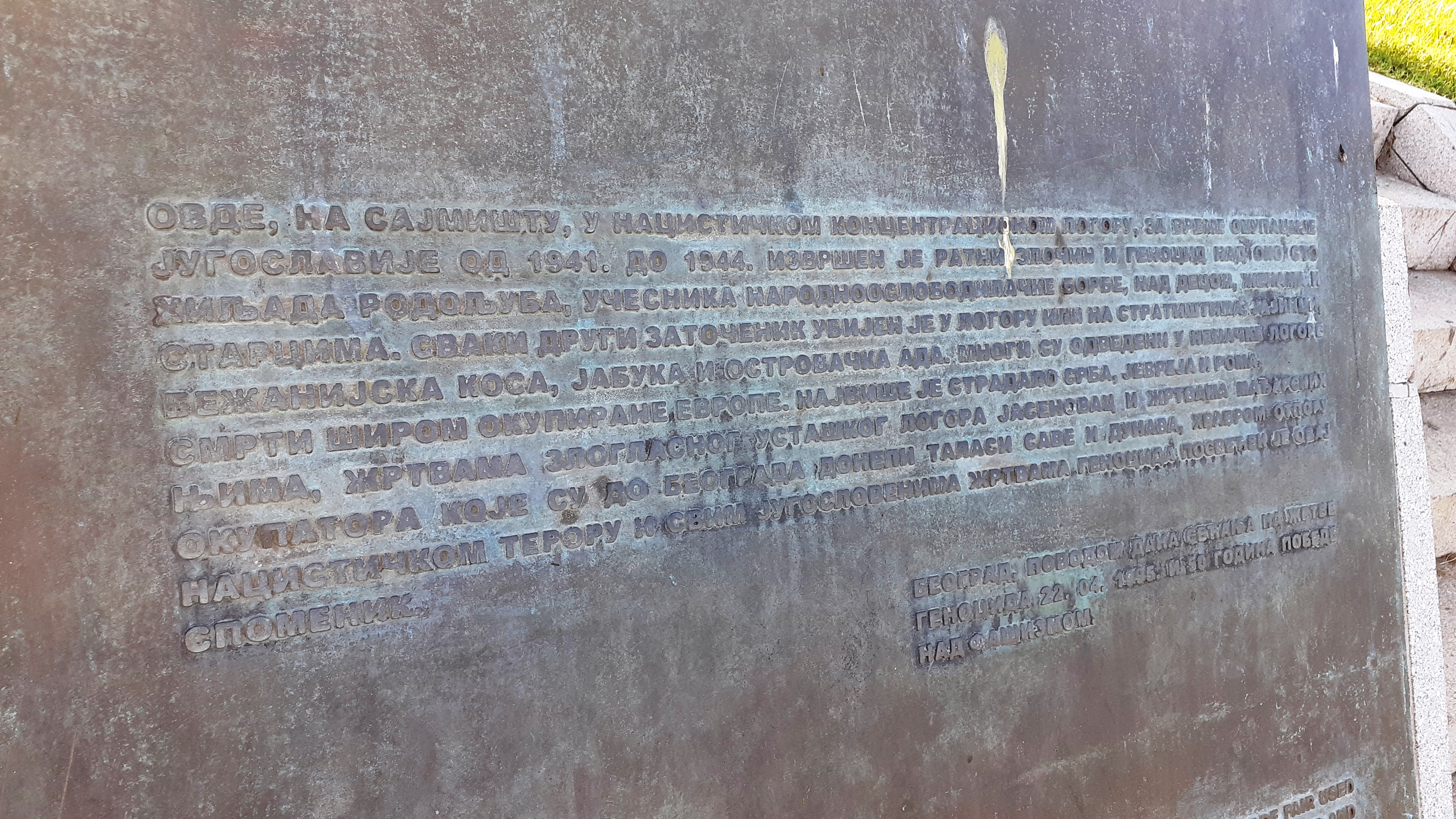 Monument Staro Sajmište - remembrance of the victims of the genocide 1941-1944, on the left bank of the Sava, in the City Municipality of New Belgrade, in Belgrade, inscription on the monument